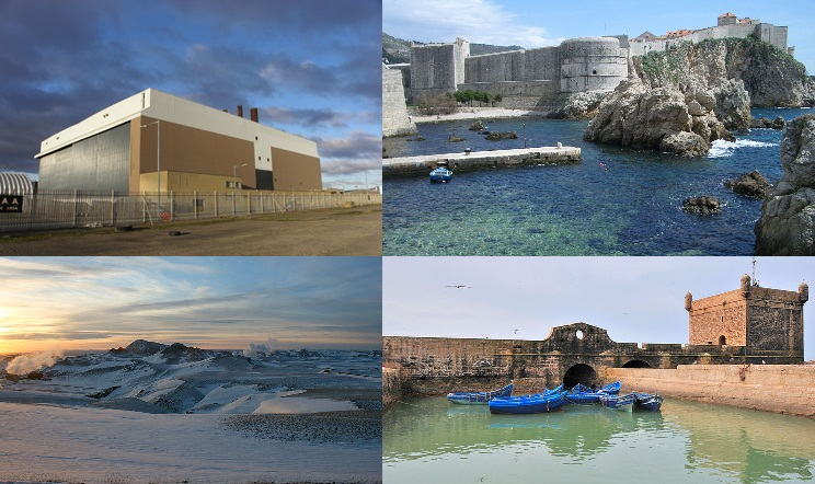 A summary of the main filming locations of Game of Thrones third season's episode "Valar Dohaeris". Based on the following images with the same license: by Henry Clark by Daniel Ortmann by debivort by Viault